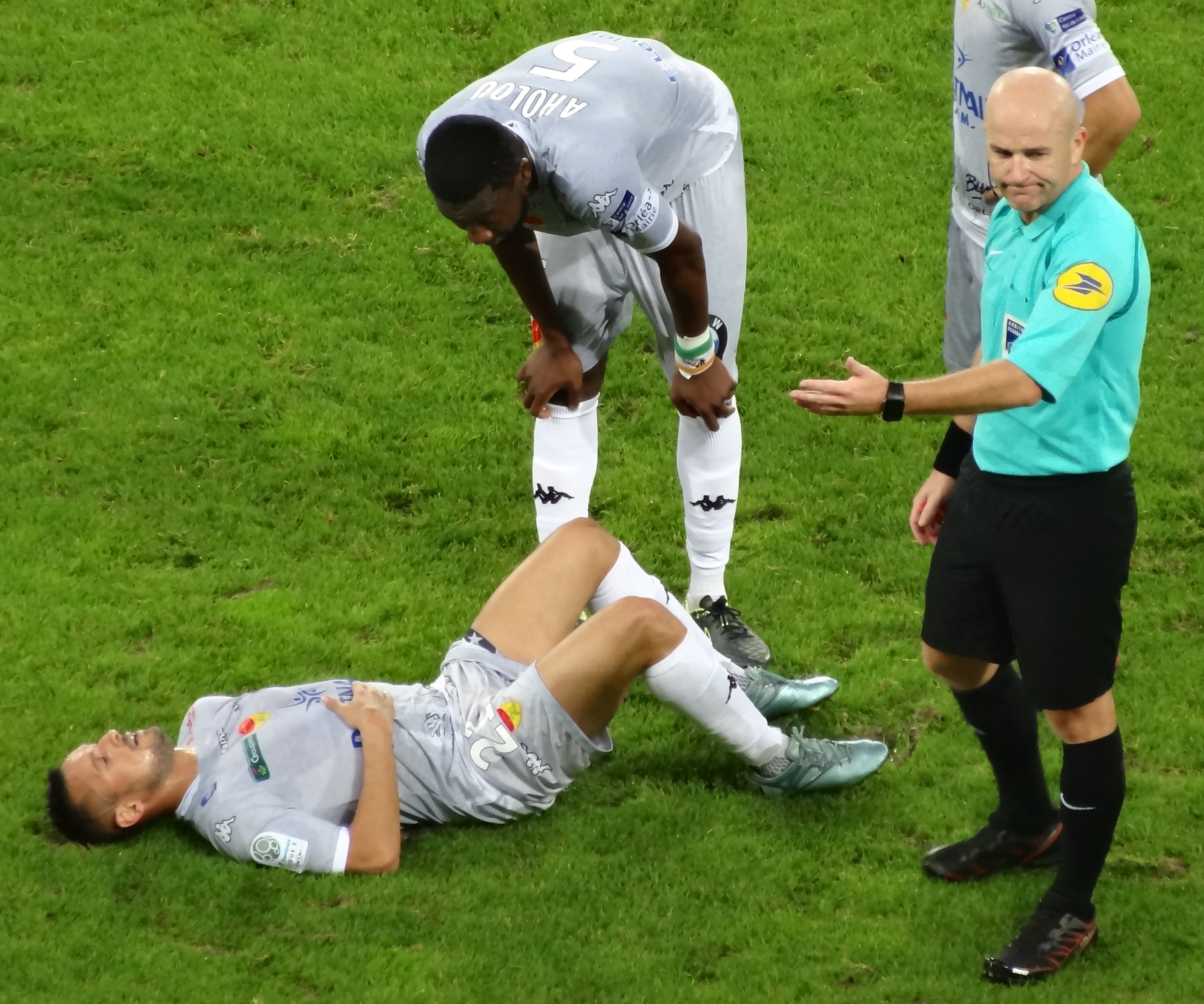 Sébastien Moreira